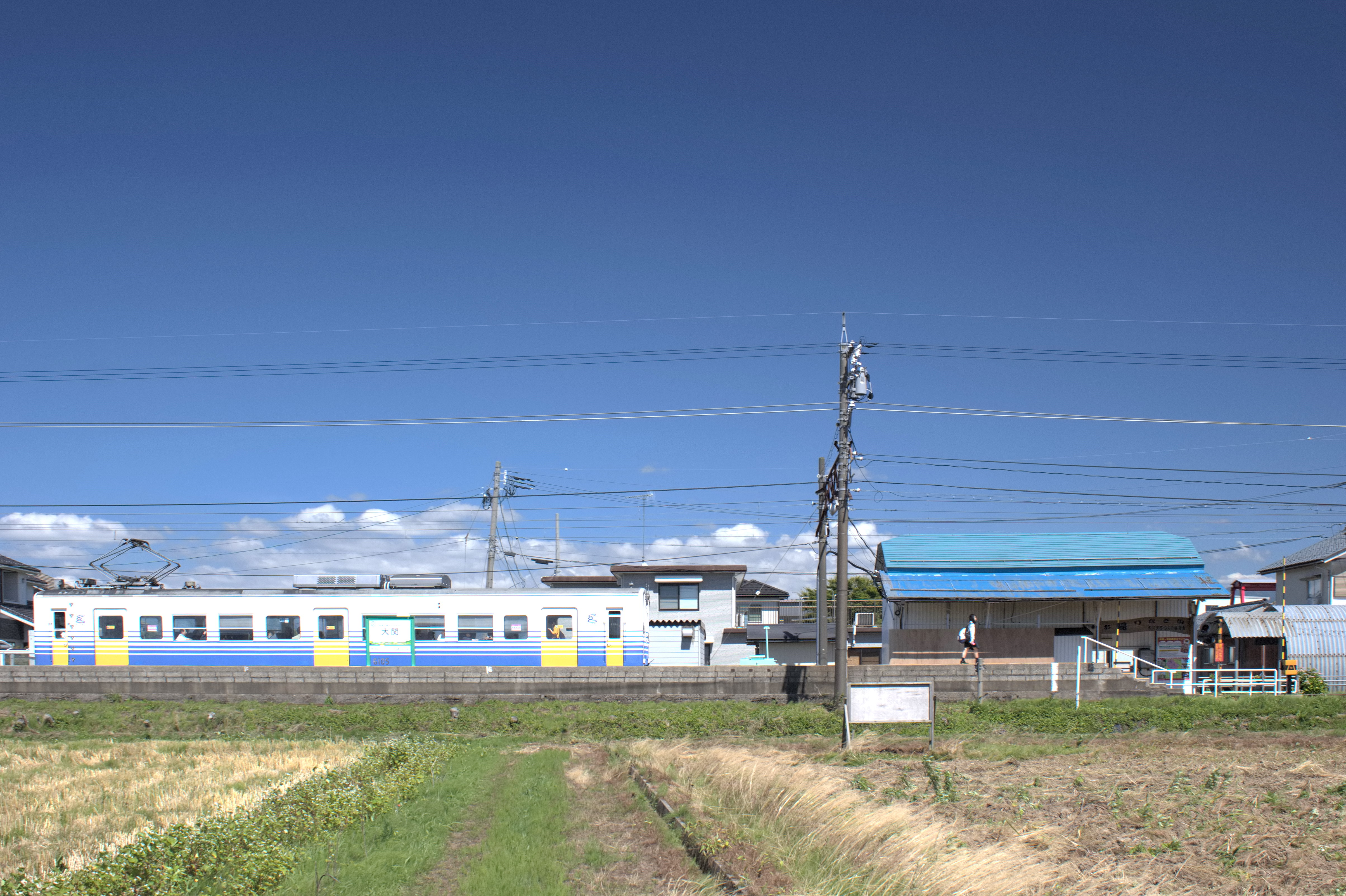 Ozeki Station in Fukui Prefecture, Japan Distant view